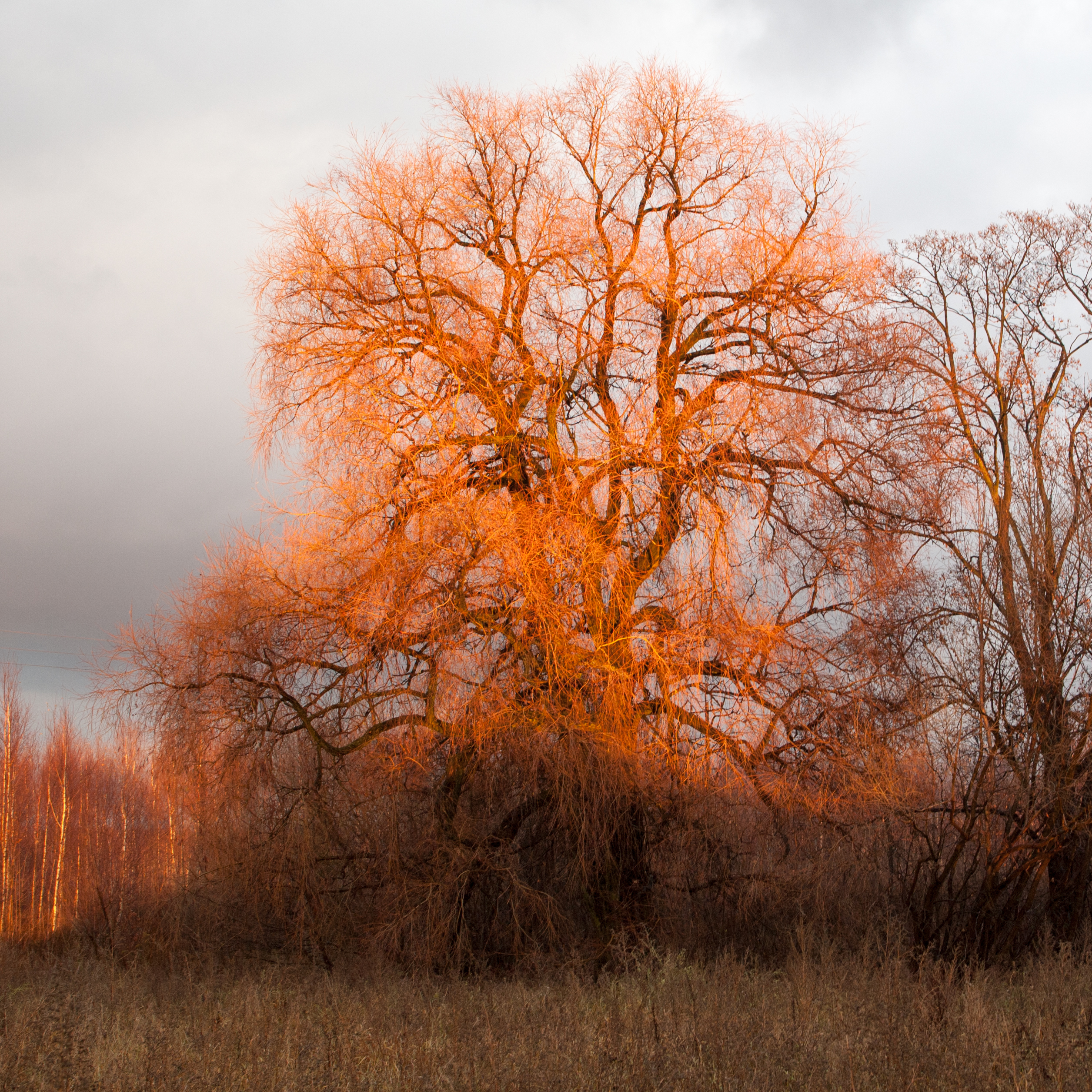 The crack willow, Lodz(Poland)